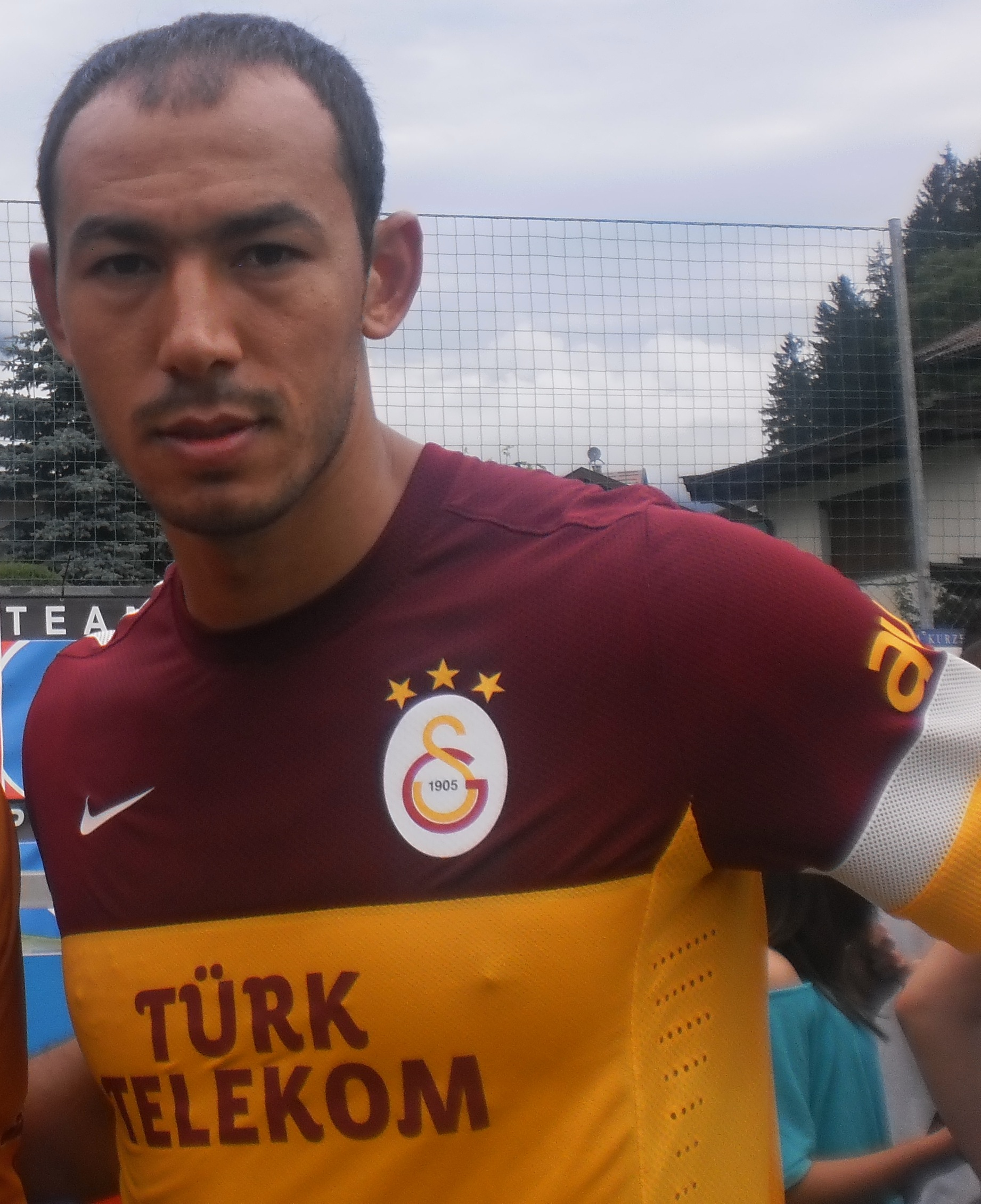 Umut Bulut @ Wörgl Camp